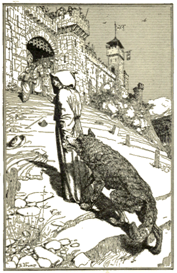 St. Francis leads the Wolf to Gubbio